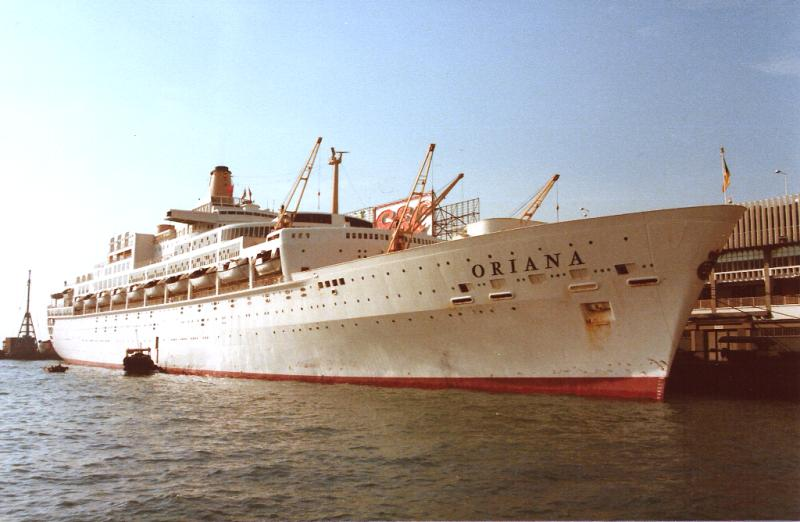 ss Oriana at Kowloon, 1984 Photograph by Paul Dashwood